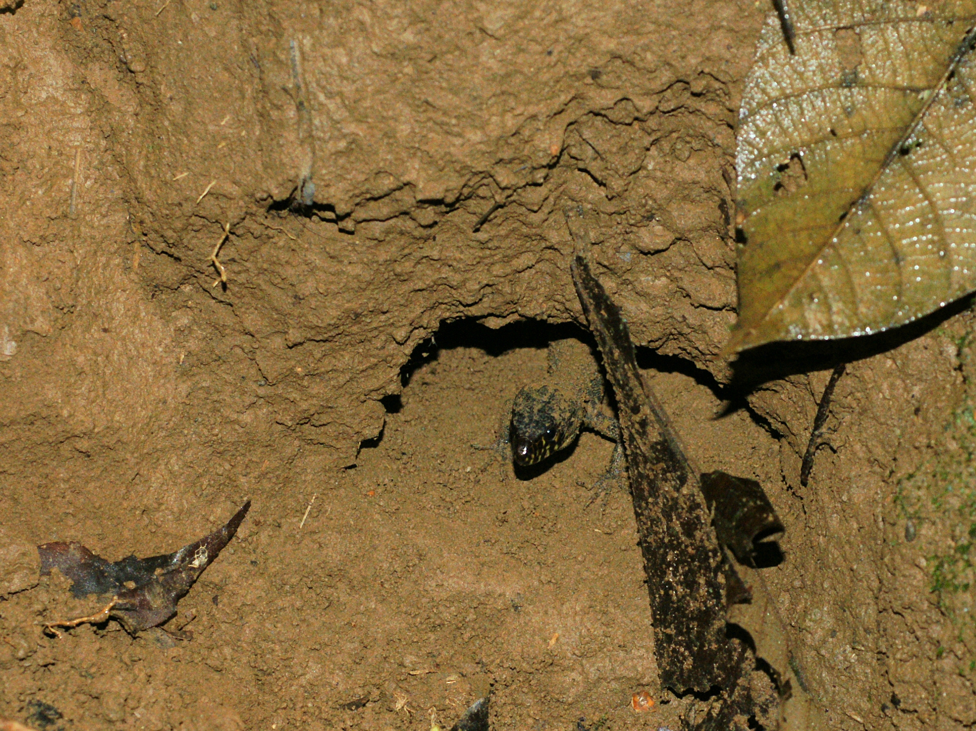 Yellow-spotted tropical night lizard near La Selva Biological Station (OTS), Costa Rica.